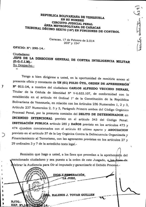 Opposition leader Carlos Vecchio apprehension's order.